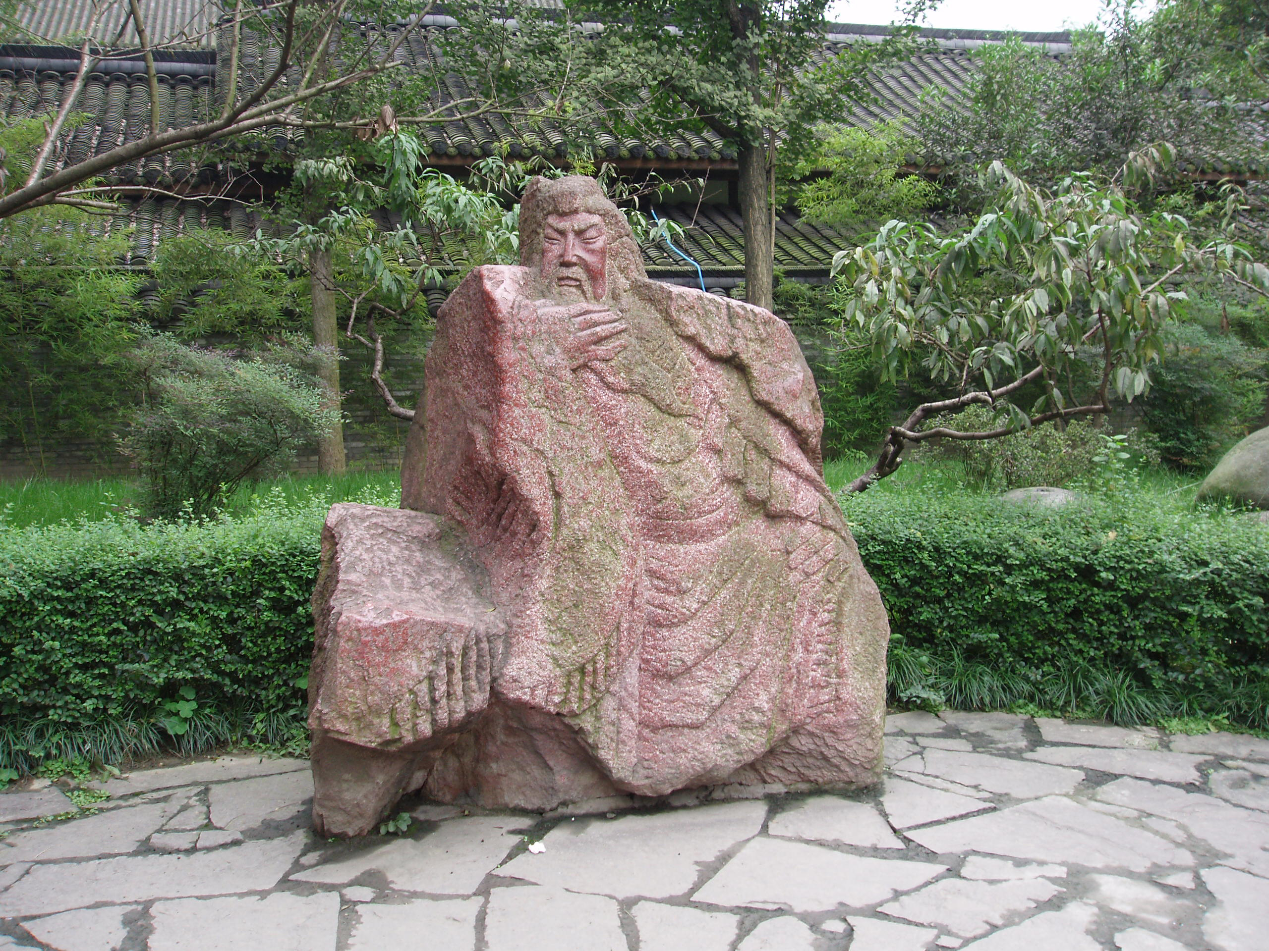 The statue of Guan Yu,in Zhuge Liang's temple,Chengdu,China